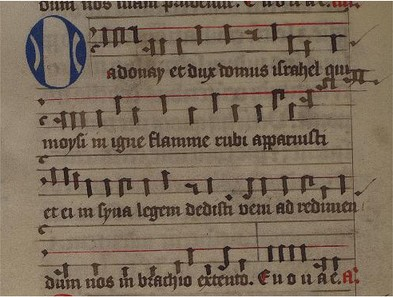 Antienne O : " O Adonai"